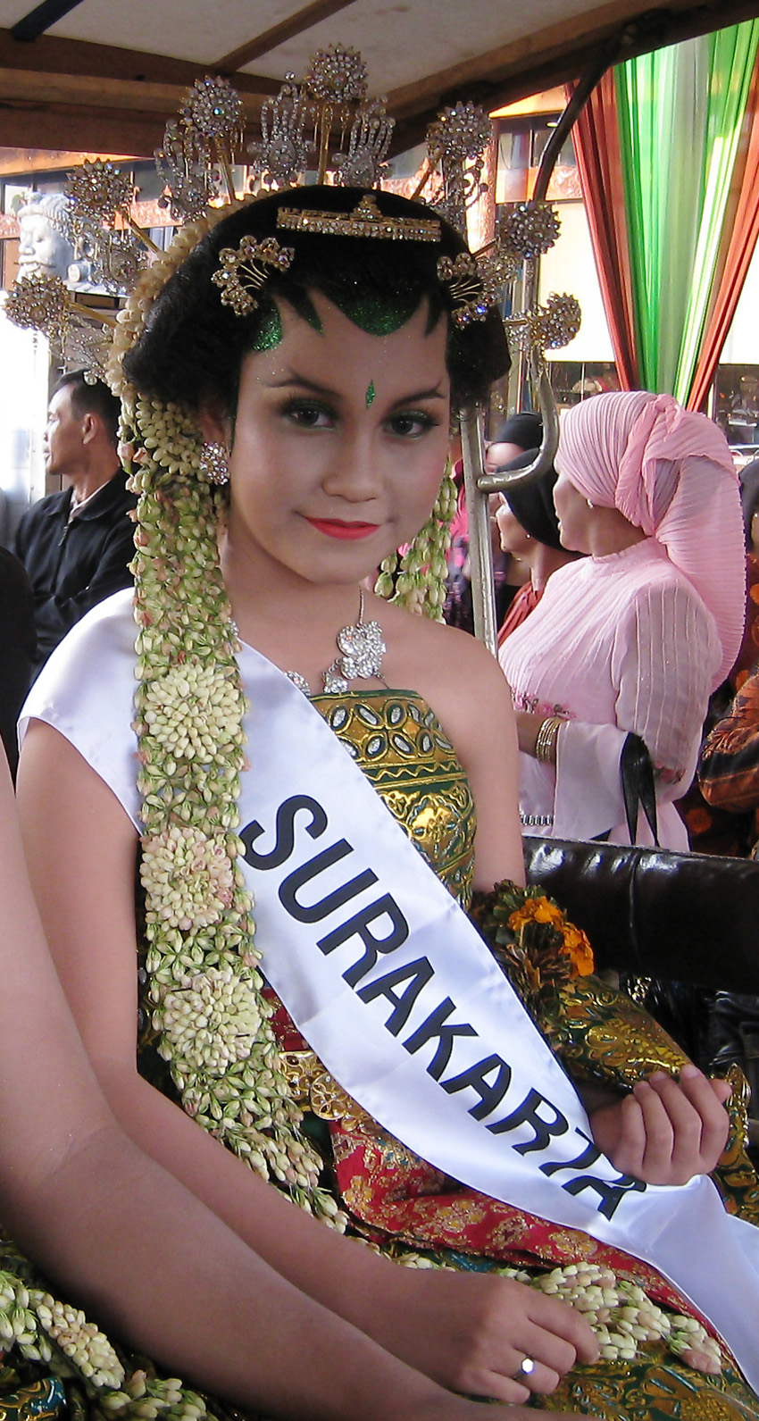 The Surakarta (Solo) Bride in traditional Dhodot (Basahan) Javanese wedding costume. The bride is richly decorated with jewelry and her hair is intricately adorned with melati putih (Jasminum sambac) flower arrangements. Melati putih is the national flower of Indonesia. Taman Mini Indonesia Indah, Jakarta.